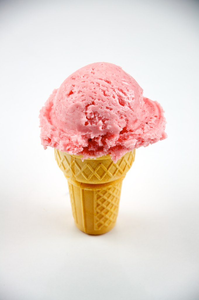 Strawberry Ice Cream Cone